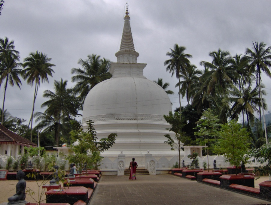 Buddhist stupa in Sri Lanka